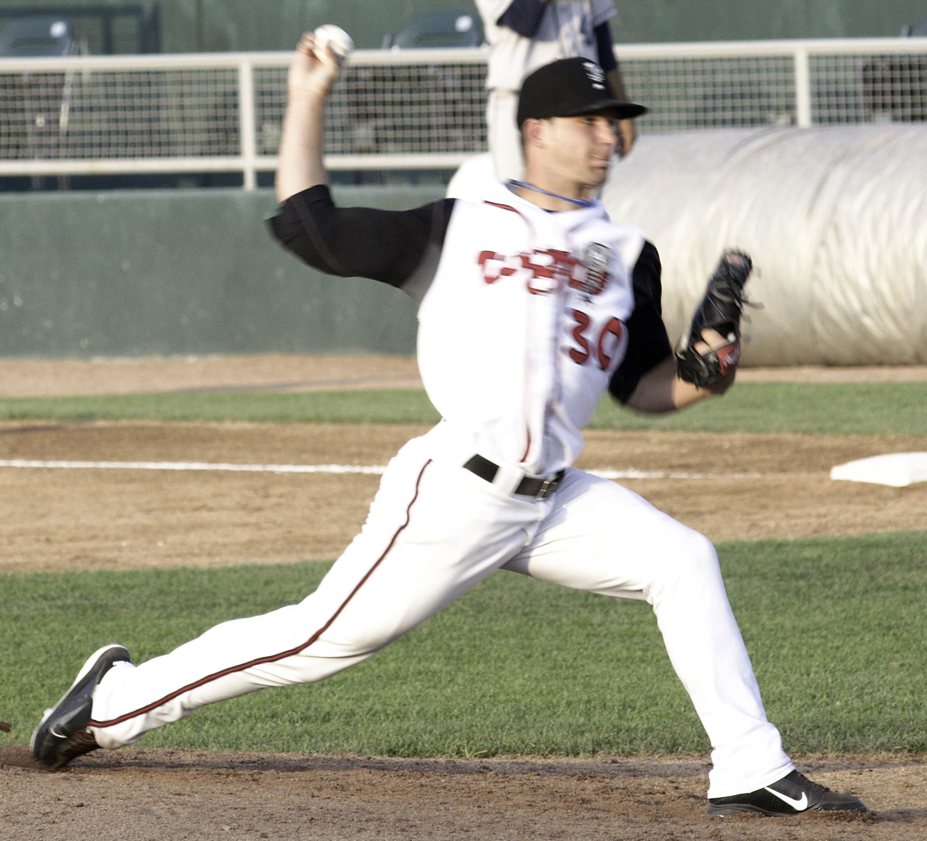 Marcus Walden during a game Burlington @ Lansing in 2011